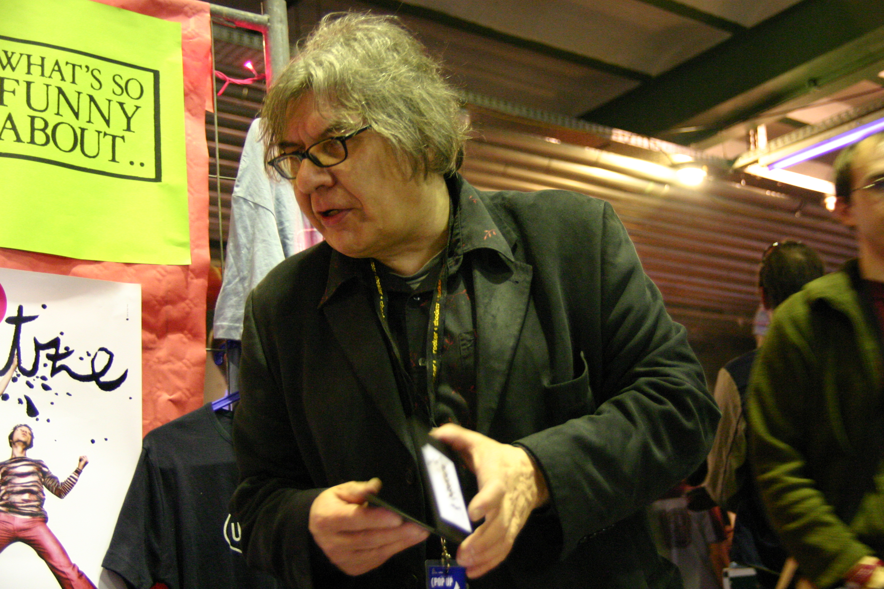 Alfred Hilsberg, legendary German label owner (ZickZack, What's so funny about) and music promoter